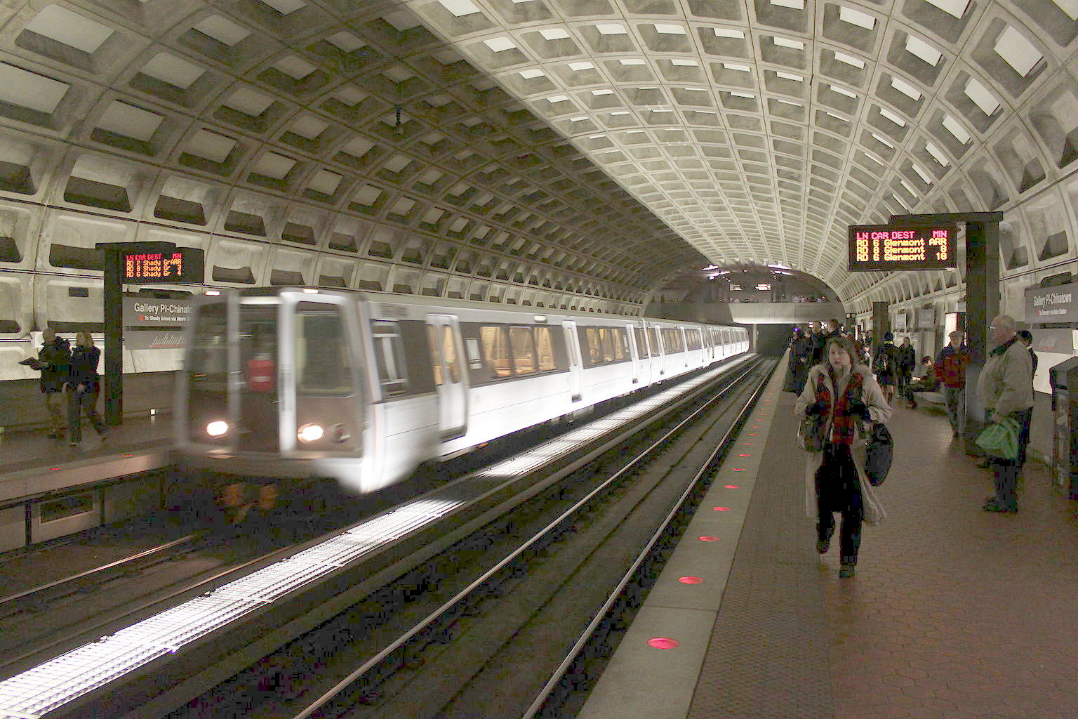 Washington Metro, Gallery Place-Chinatown station, upper level, facing west.